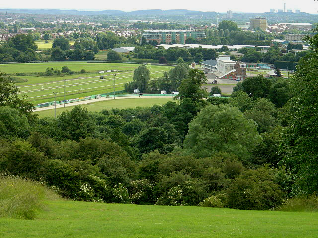 View from Colwick Woods park Open space which was part of the Colwick Hall estate, purchased by the City of Nottingham in the early 20th century. It includes a 50 hectare local nature reserve incorporating ancient woodland, managed grassland and a triassic geological site. The latter is due to the way the hillside has been cut into in the past by the River Trent, leaving an abrupt drop to the valley floor. Visible in this view are the Greyhound Stadium, Nottingham Racecourse, Trent Bridge Cricket Ground (two of the new floodlight pylons can be made out directly above the grey-roofed grandstand of the racecourse), to the right of them the brownish tower block is Trent Bridge House, housing some County Council departments, and further to the right the long pale roofs are County Hall. In the far distance is Ratcliffe Power Station.